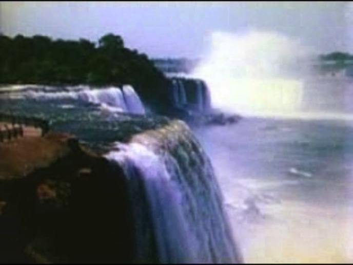 The opening shot of Niagara Falls from the theatrical trailer of the 1953 film Niagara directed by Henry Hathaway.